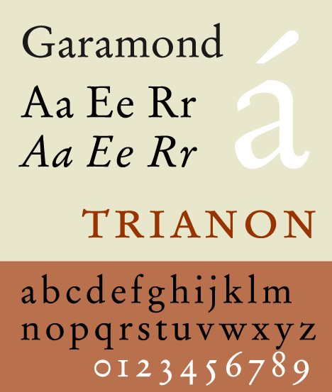 Specimen of the typeface Stempel Garamond. 22.02.07, Jim Hood.